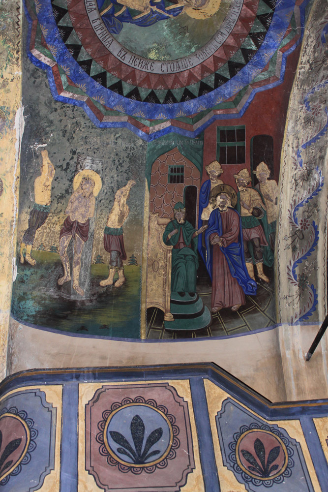 The ceiling of the church in village Skortsite, Bulgaria